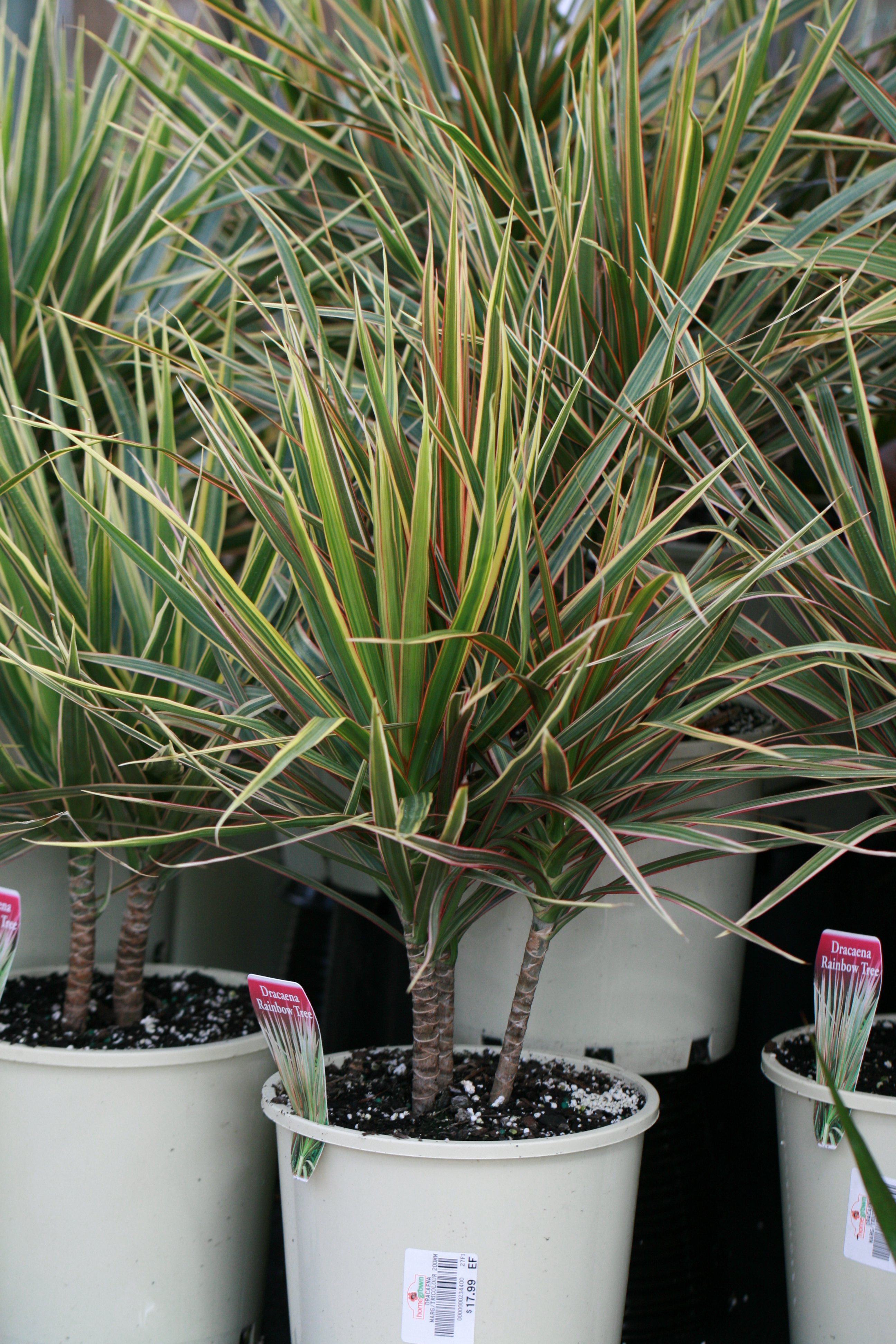 Dracaena marginata 'Tricolour' in a Sydney nursery.